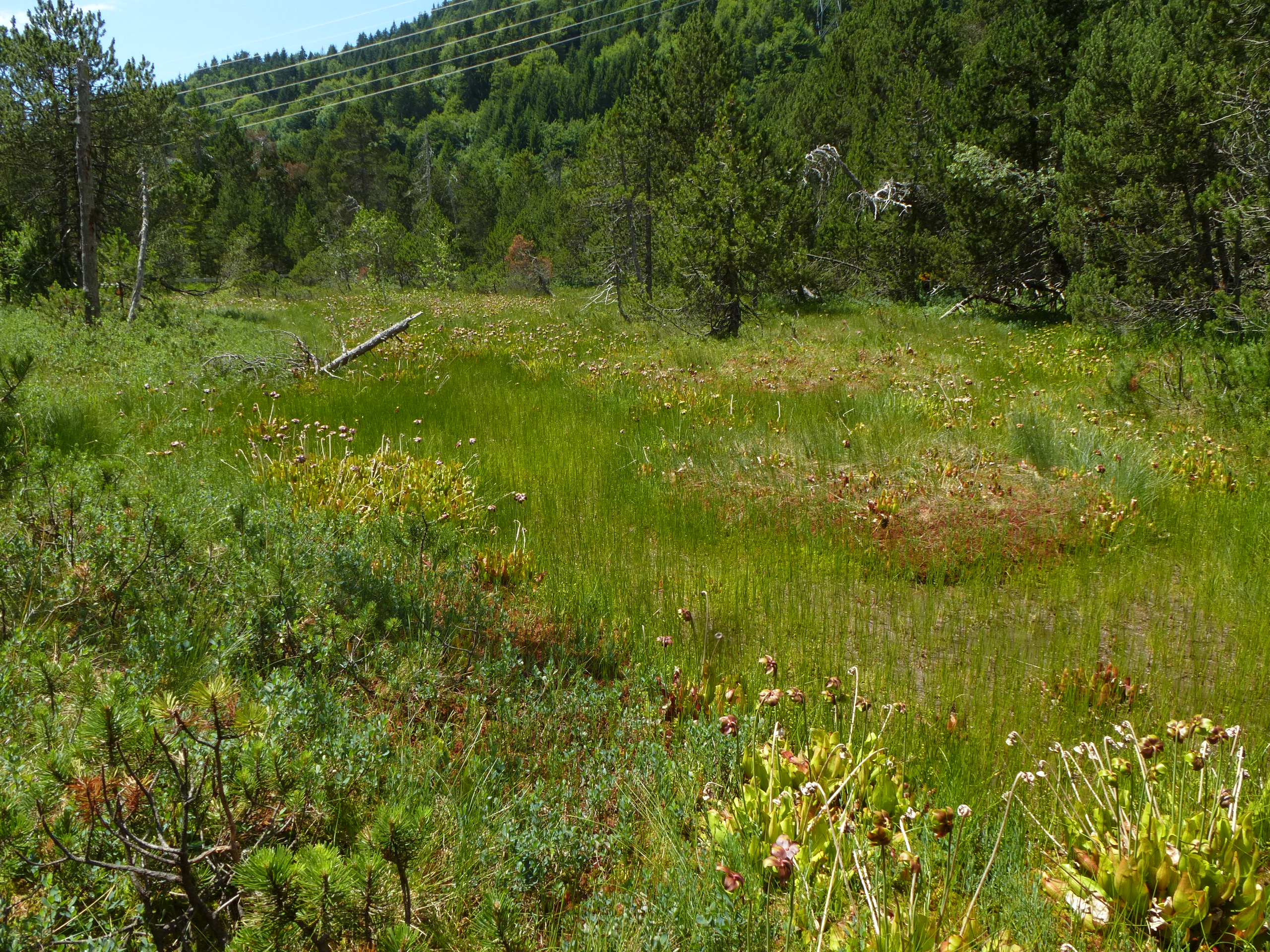 Sarracenia purpurea ssp. purpurea in the raised bog Les Tennasses, Switzerland